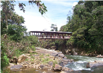 Bridge Of purgatorio in Alejandria